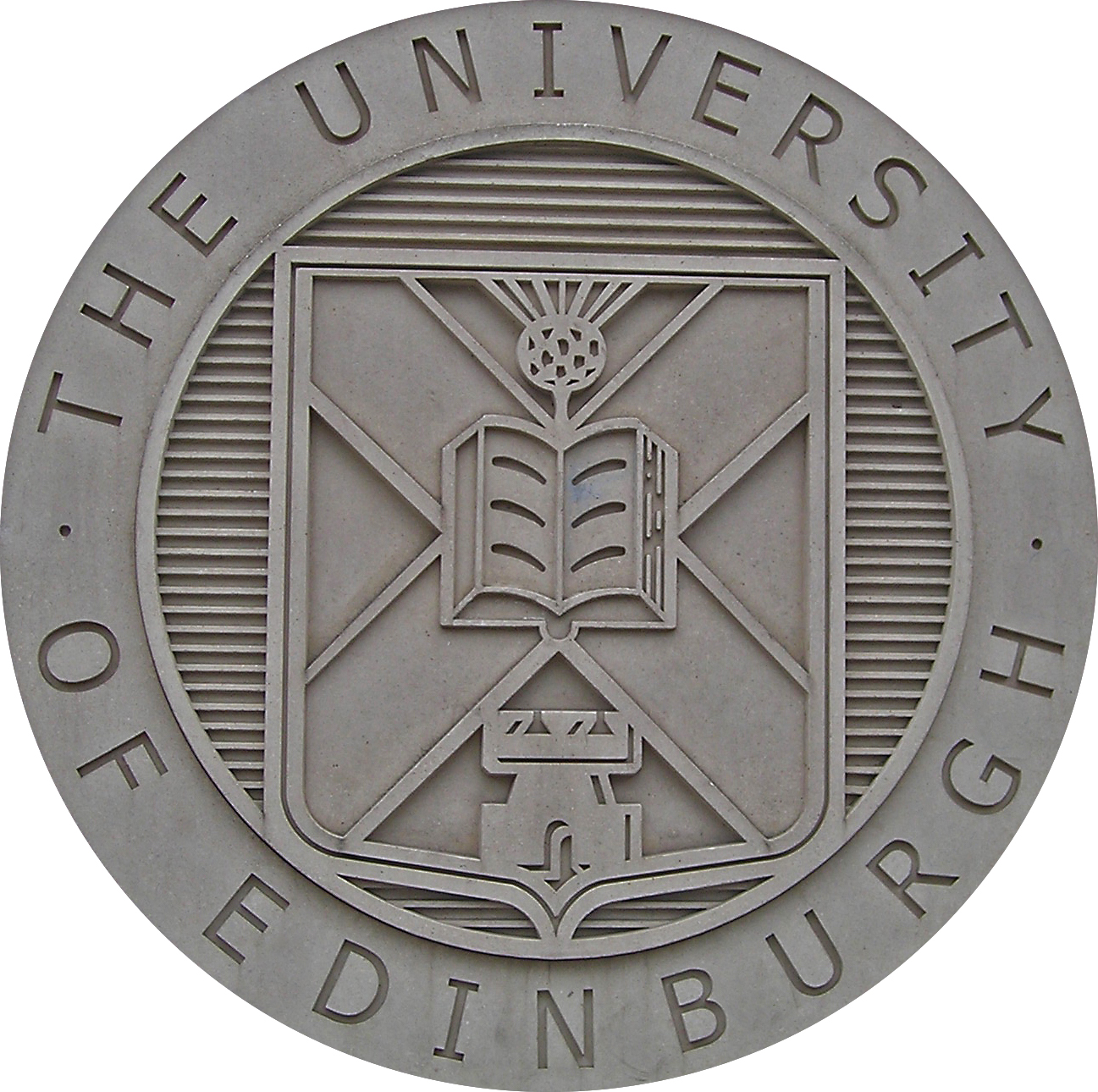 The coat of arms of the University of Edinburgh, displayed on St Leonard's Land